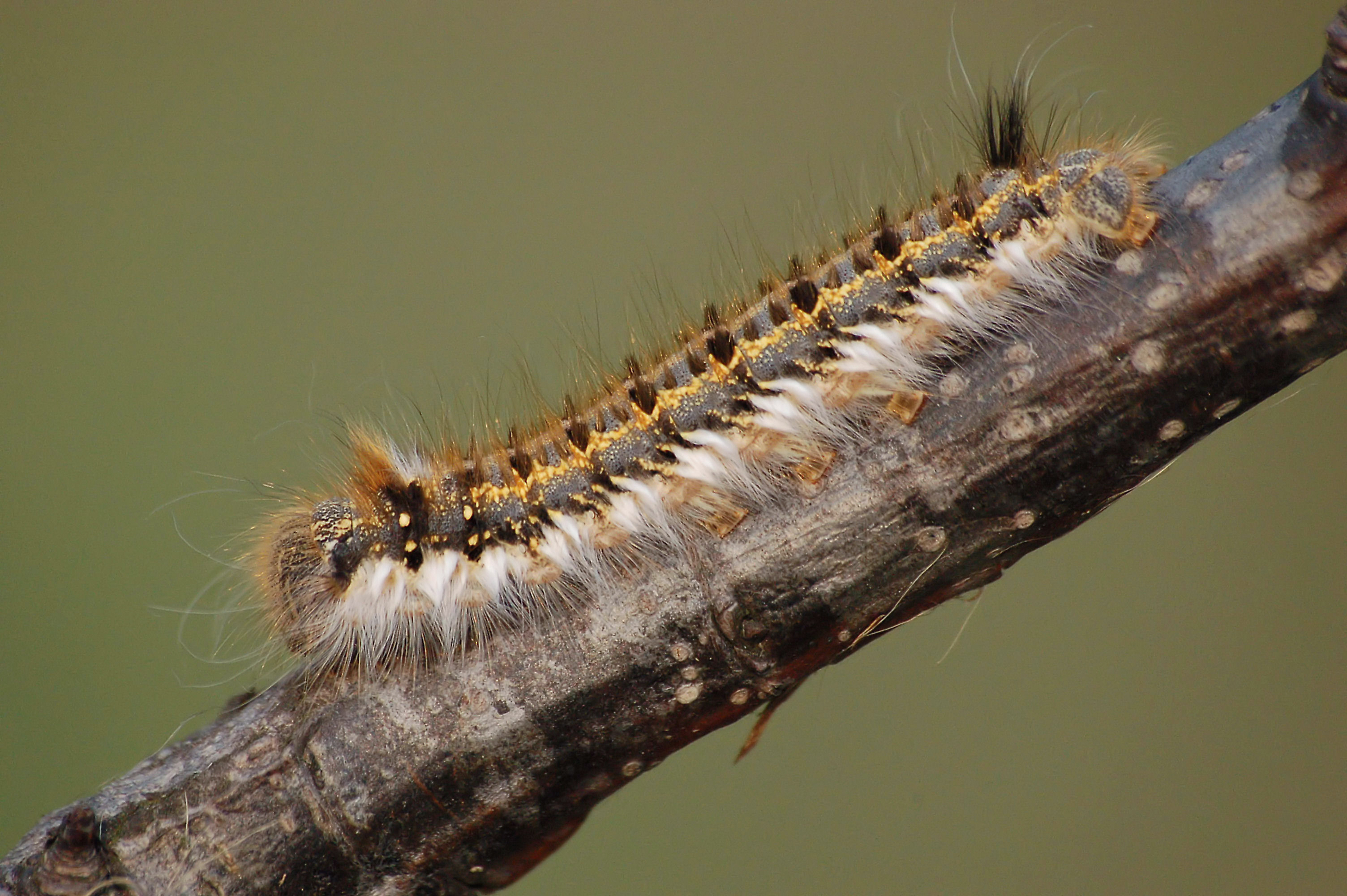 Euthrix potatoria